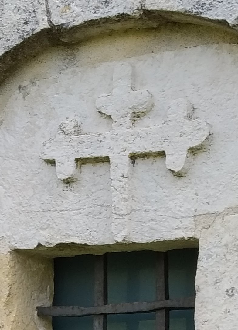 Kleeblattkreuz or Bottony Cross at Andra Mari church, Uribarri Harana, the Basque Country, romanic, 12th cent.